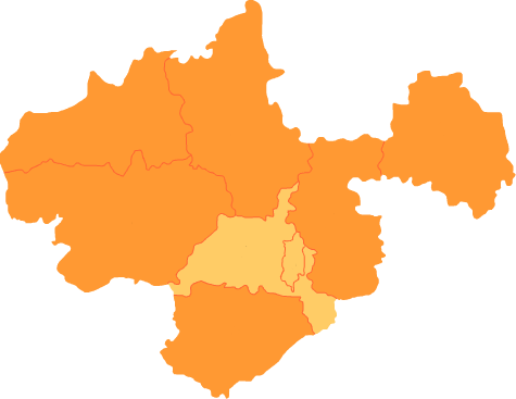 Map of Chuzhou in Anhui province, numbers removed.